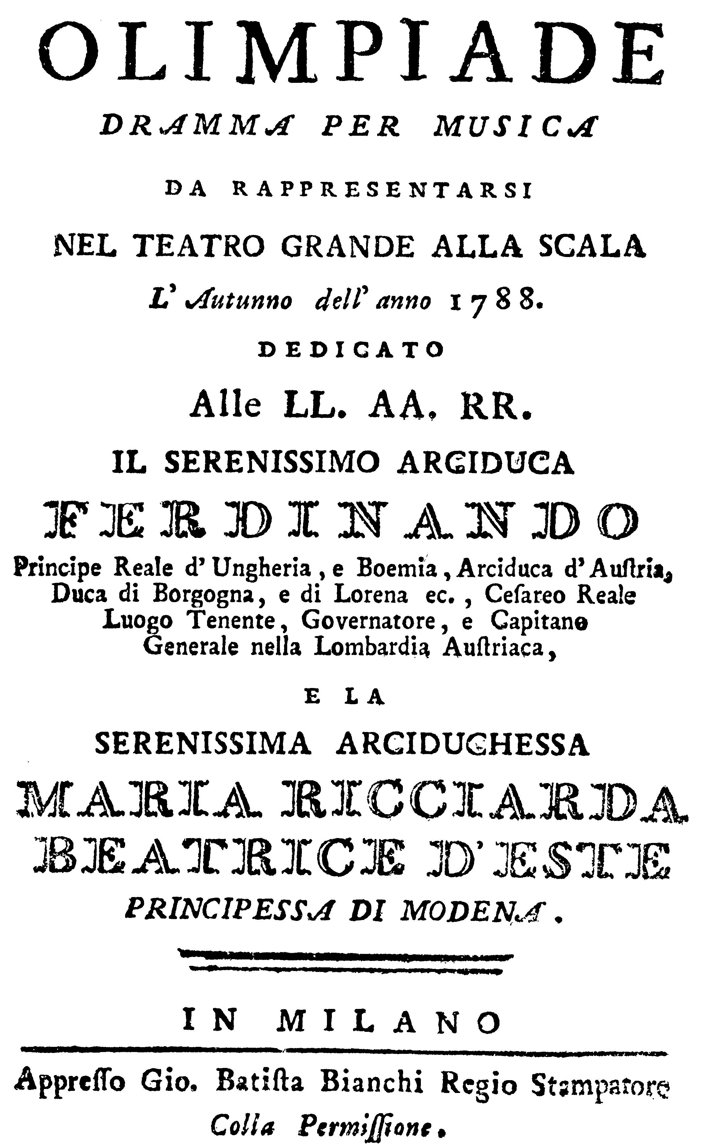 Domenico Cimarosa - Olimpiade - titlepage of the libretto - Mailand 1788